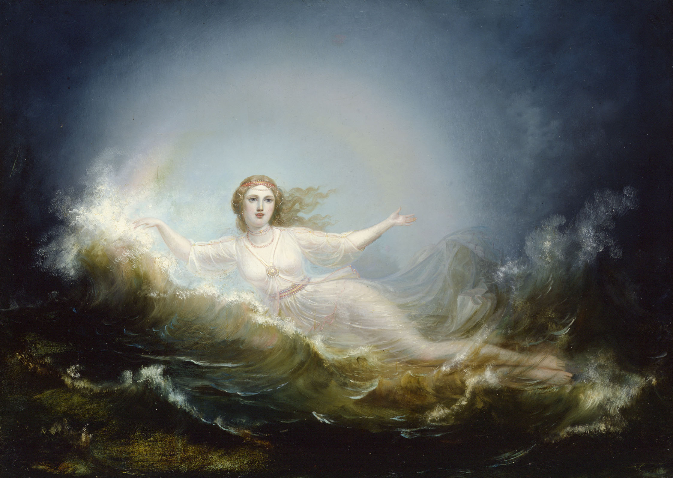 Ilmatar.